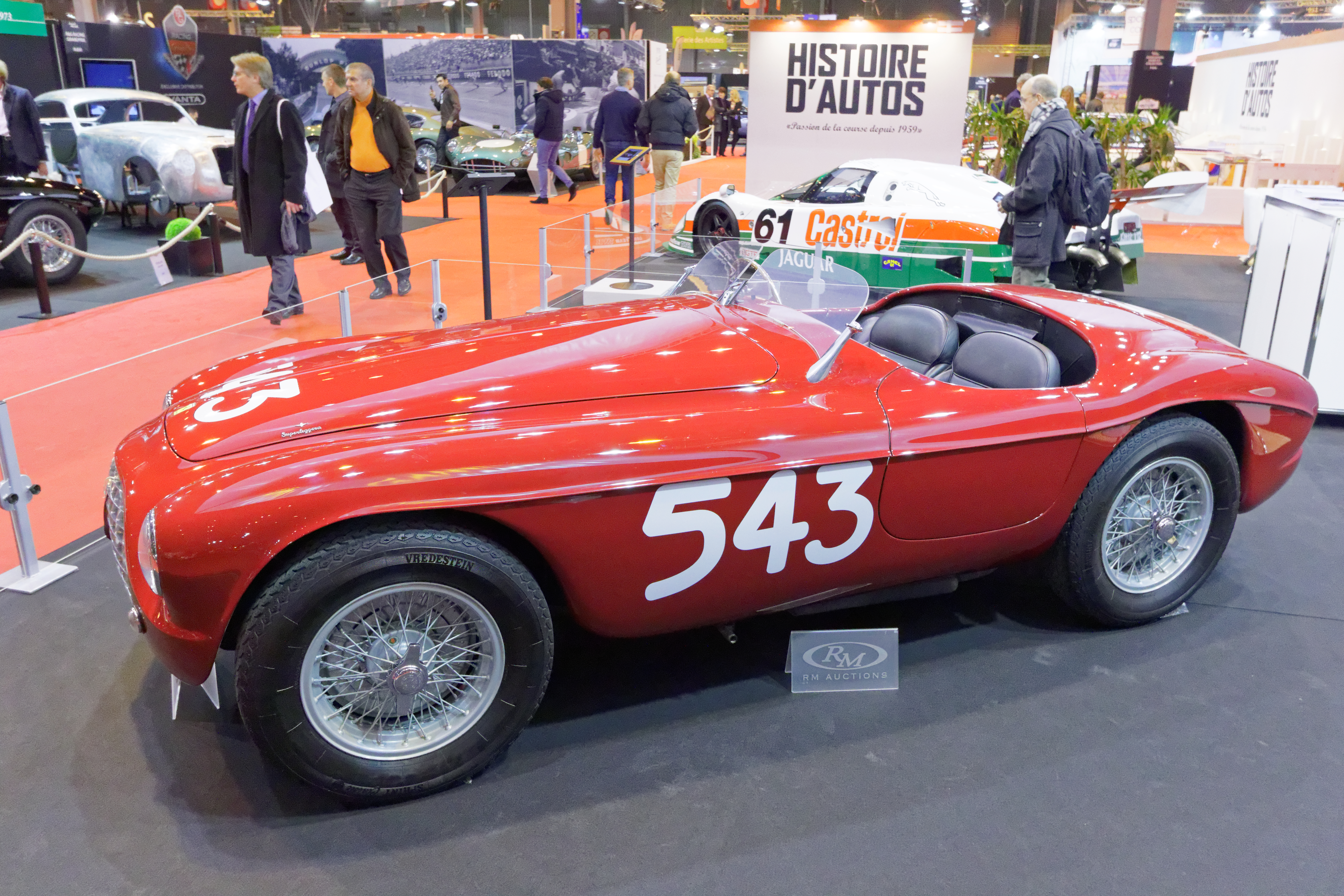 1952 Ferrari 212 Touring Barchetta, serial number #0158ED.[1][2] In American ownership.[3]